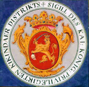 Seal of the District of Velika Kikinda (1774-1876).